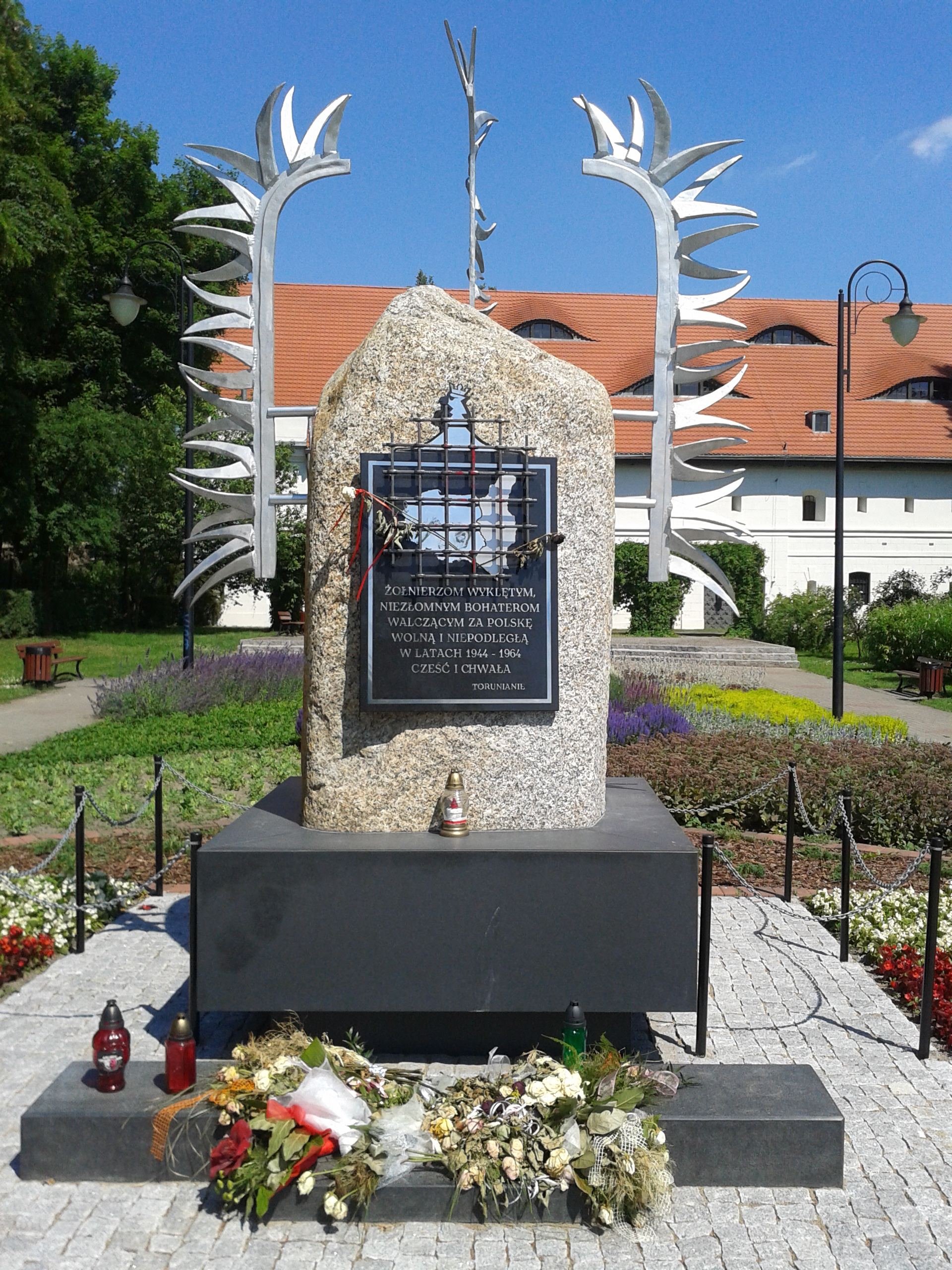 New monument of the Cursed Soldiers in Toruń, in place since May 10, 2014